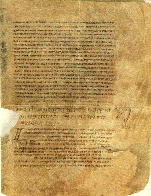 Clotze's gospel written in glagolitic letters